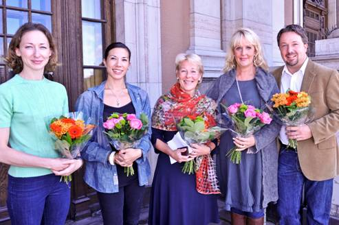 Dancers Nadja Sellrup and Gina Tse with General Manager Birgitta Svendén and vocalists Marianne Eklöf and Jesper Taube at the Royal Swedish Opera 2010